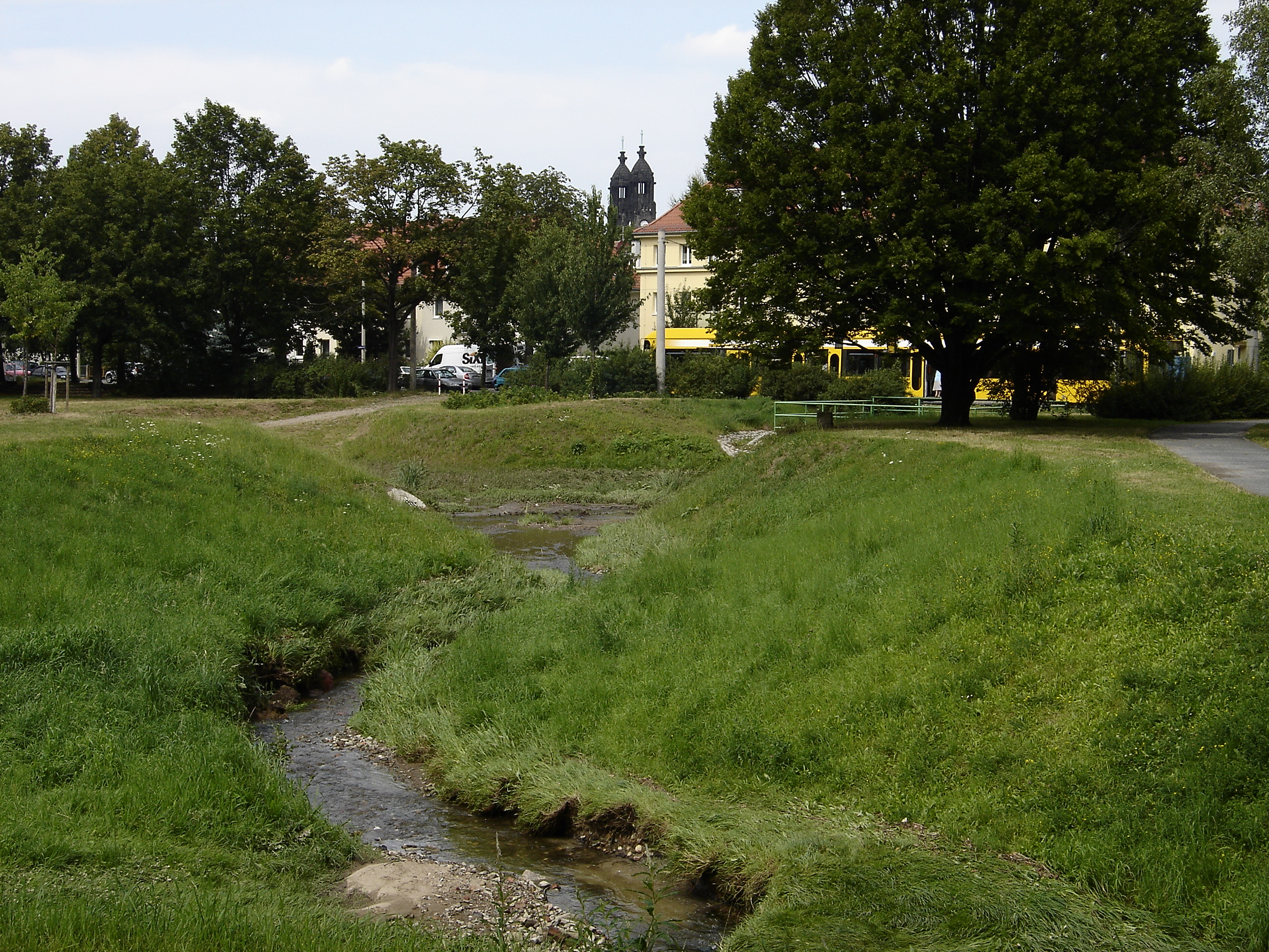 Hugo Bürkner Park in Dresden-Strehlen (flood detention basin)